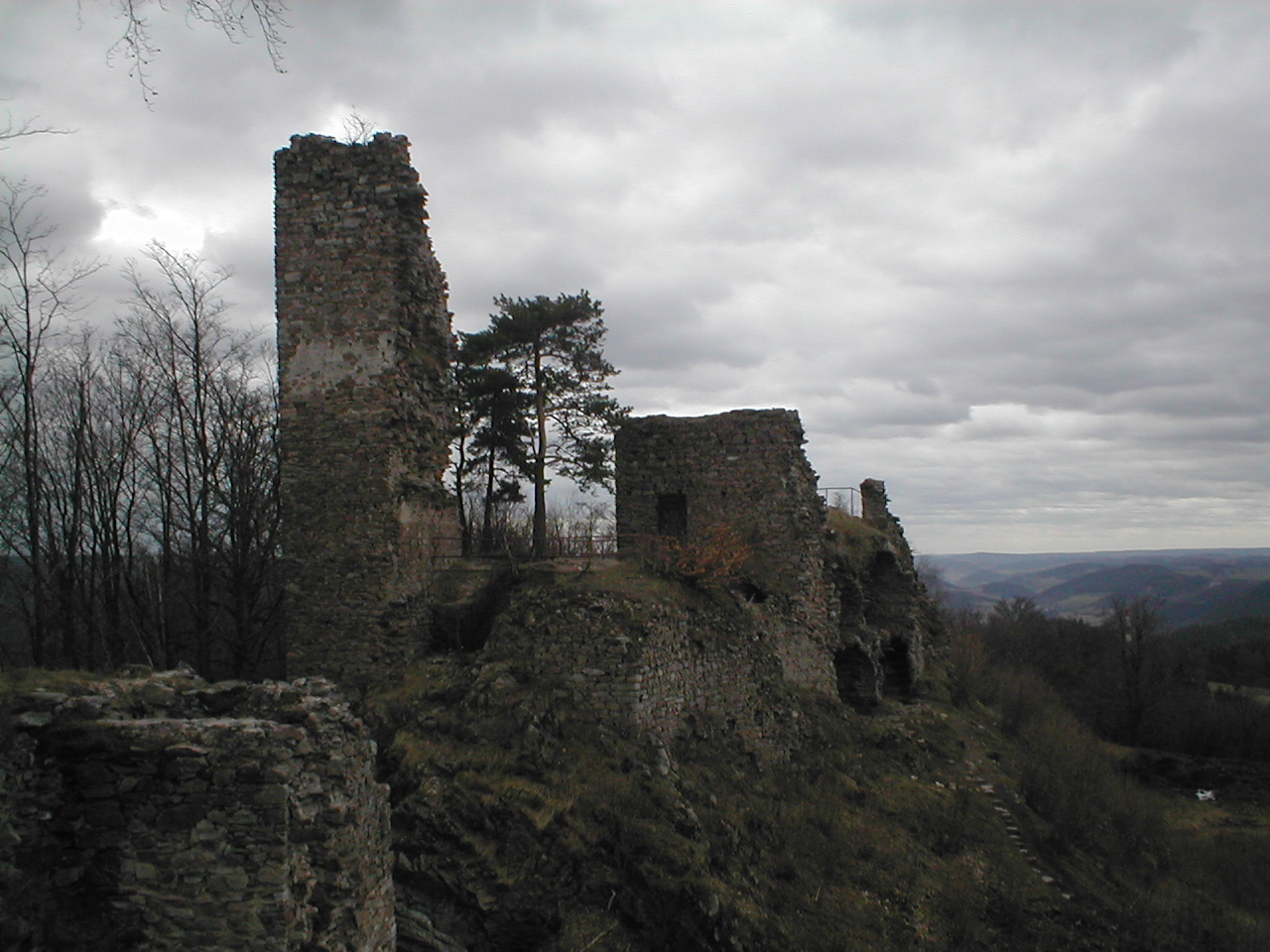 View to Zubštejn castle.